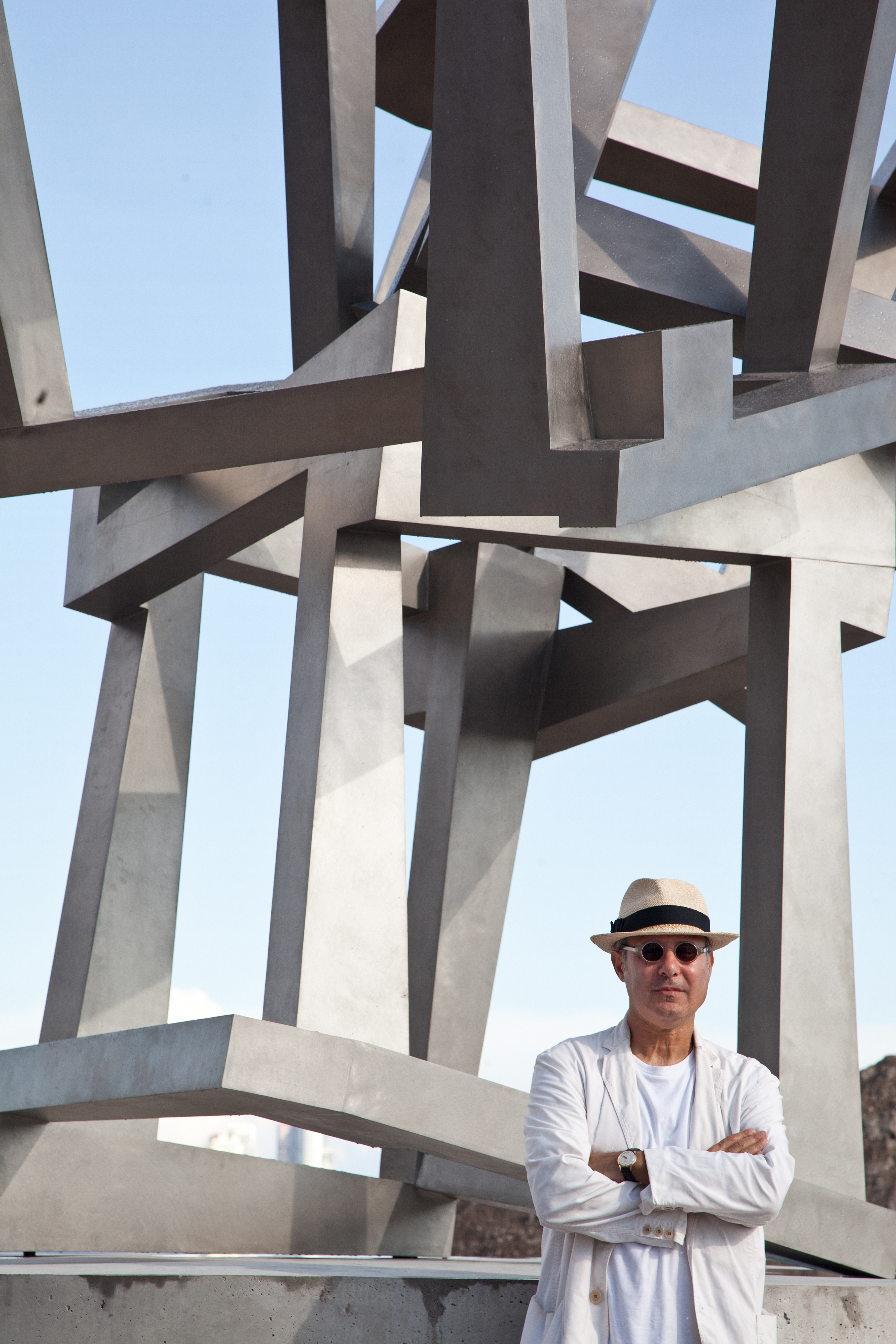 Artist Jedd Novatt standing in front of Chaos SAS at the Perez Art Museum Miami